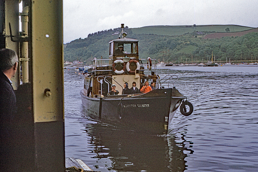 Passenger ferry MV Humphrey Gilbert approaching Dartmouth Riverside station from Kingswear. Scanned from a Kodachrome 35mm slide.